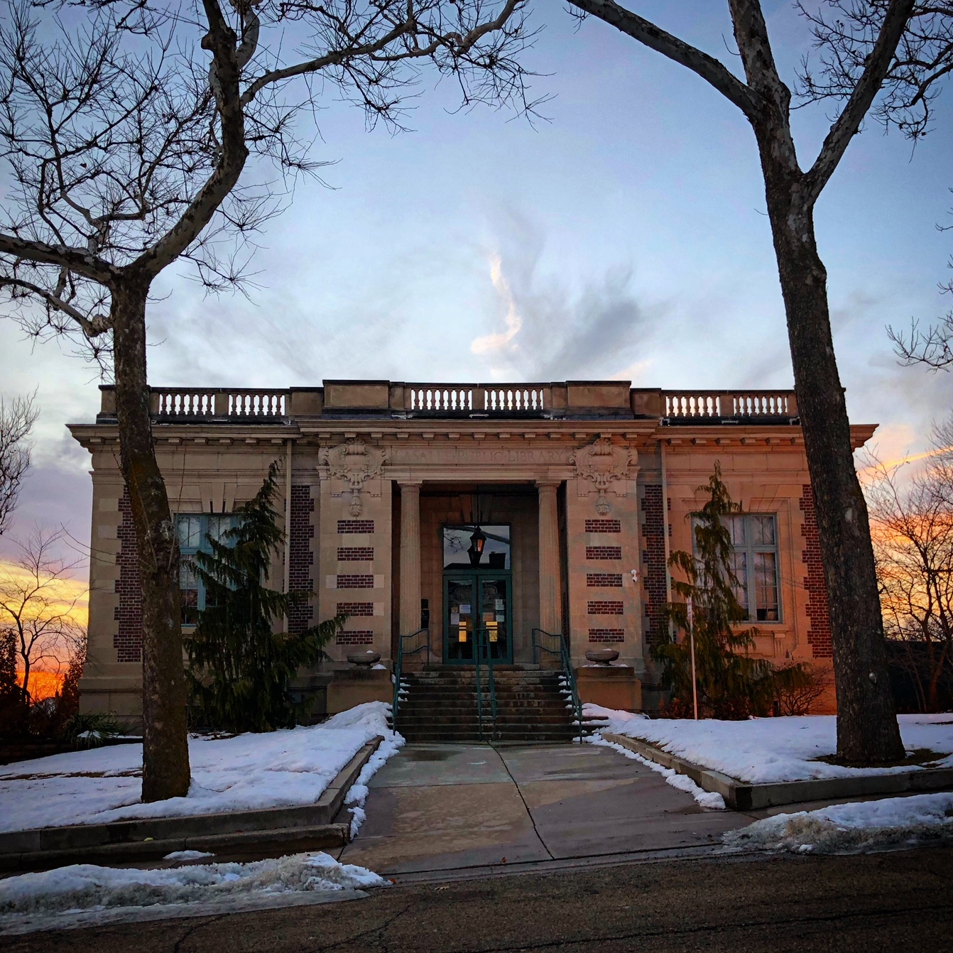 LaSalle Public Library, a Carnegie Library in LaSalle, IL — Picture taken from the east side of the building, which appears to have been the front originally.